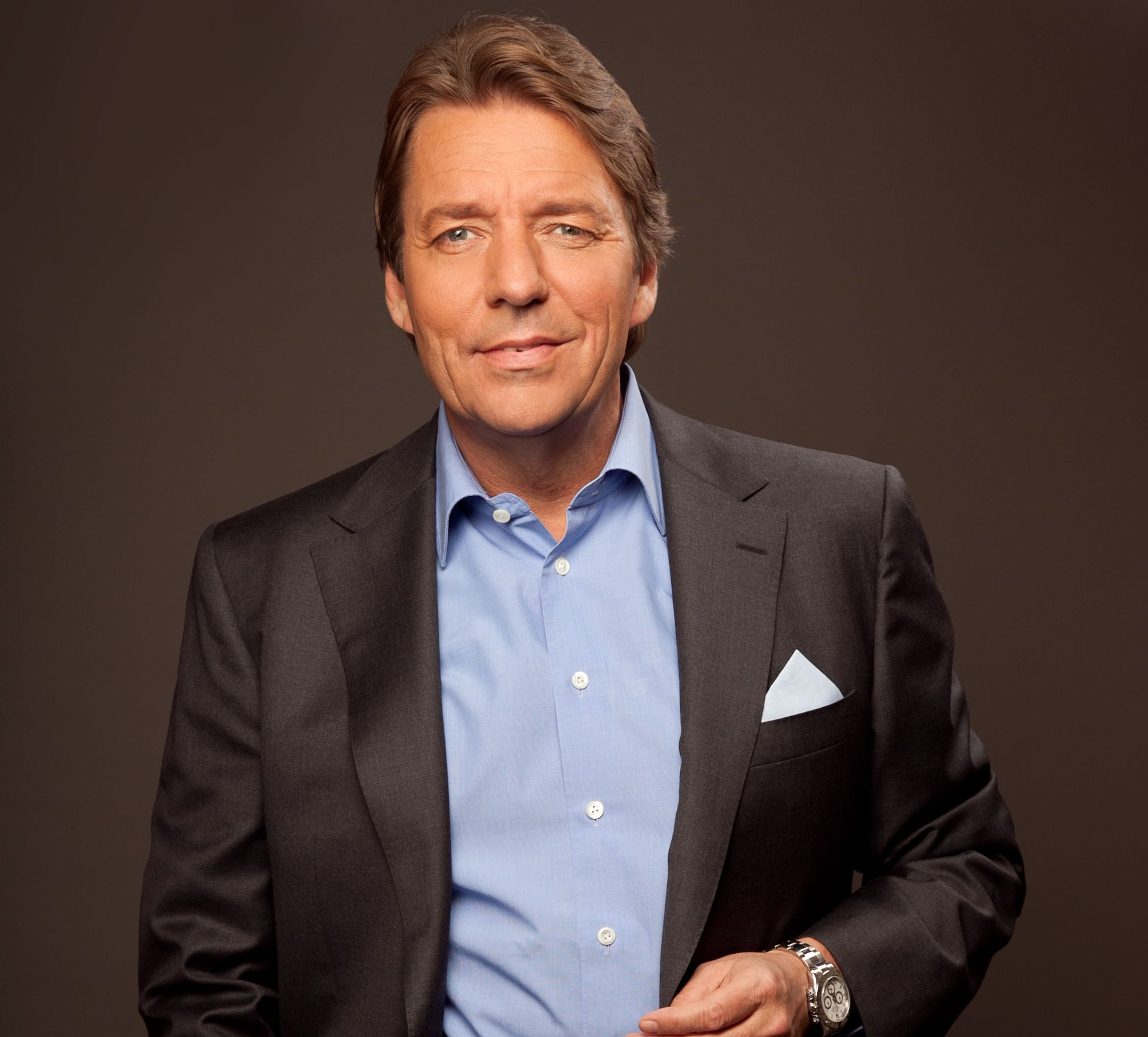 German TV producer Peter Wolf